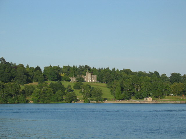 Balloch Castle and park.